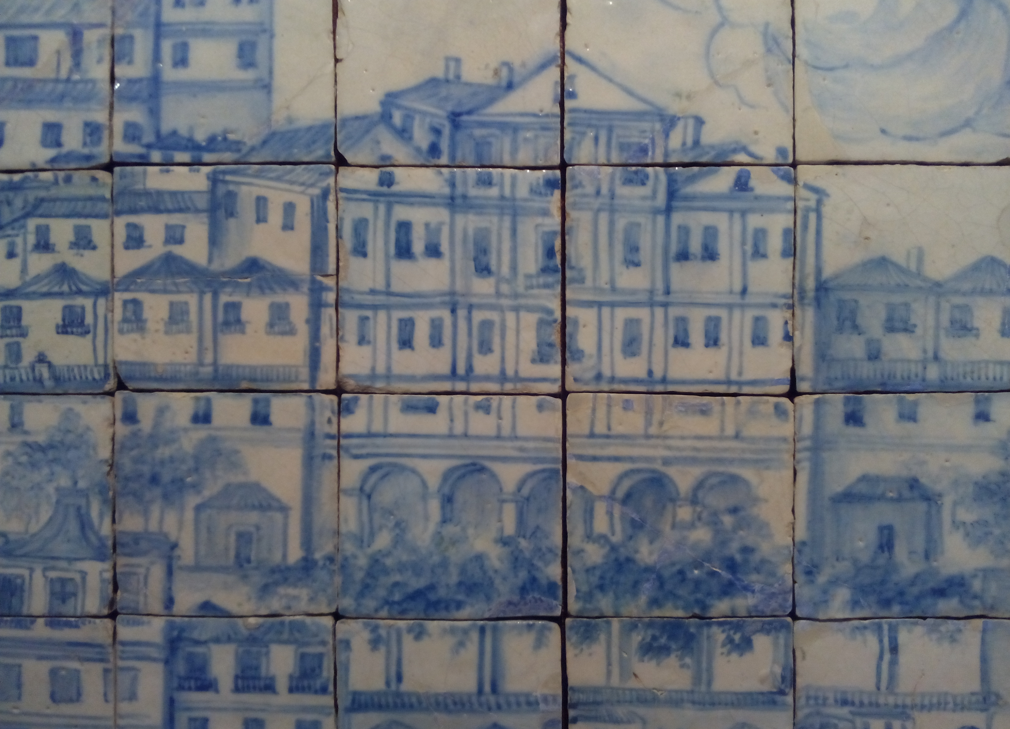 Depiction of the Convent of Saint Francis (Convento de São Francisco da Cidade), in Lisbon, in an early 18th-century tile panel depicting a view of city. Currently in the National Tile Museum (Museu Nacional do Azulejo), in Lisbon, Portugal.